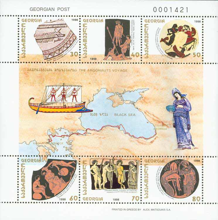 Argonauts. Terracotta plate (part of the Greek galley). Preparation for battle. Boreads, Phineus (blind seer) and Harpy (ancient greek gods). Punishment of King Amicus. Argonauts in Kolchis. The dragon vomiting Jason. Post of Georgia 1998.